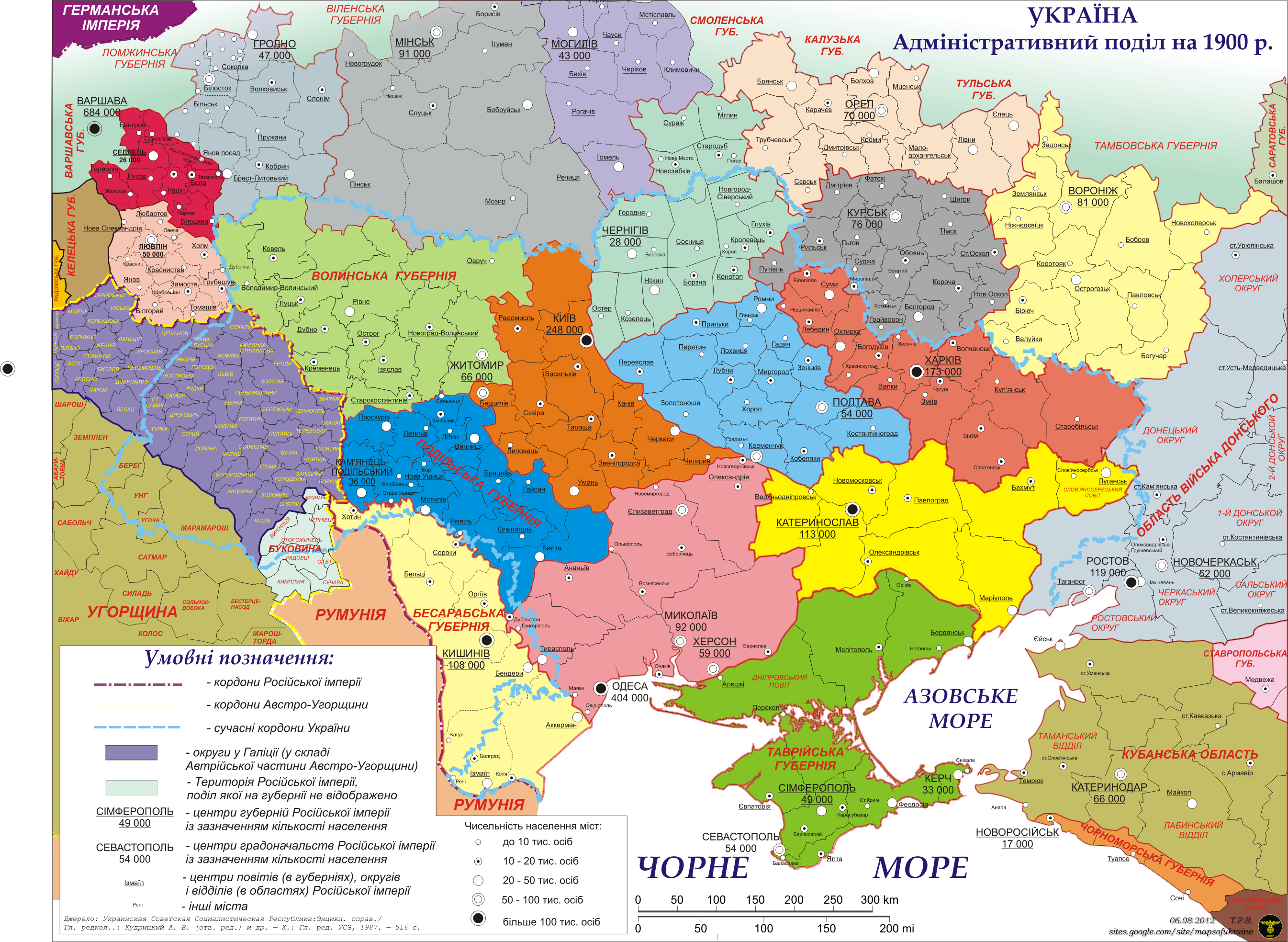 Administrative Division of the Ukrainian and surrounding lands in 1900